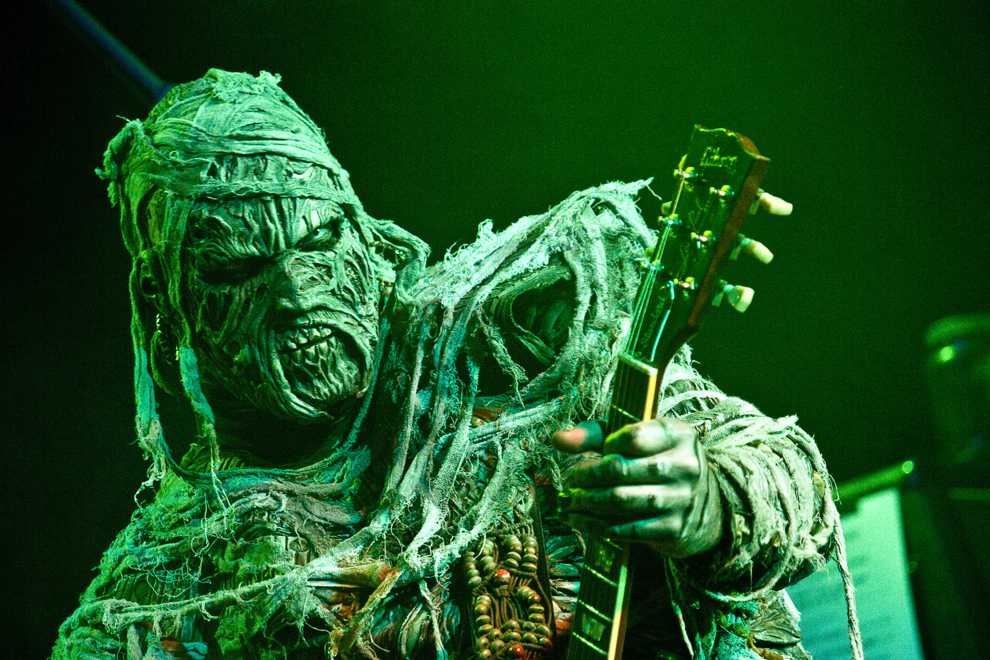 Lordi in concert in Salamandra, Barcelona, Spain.